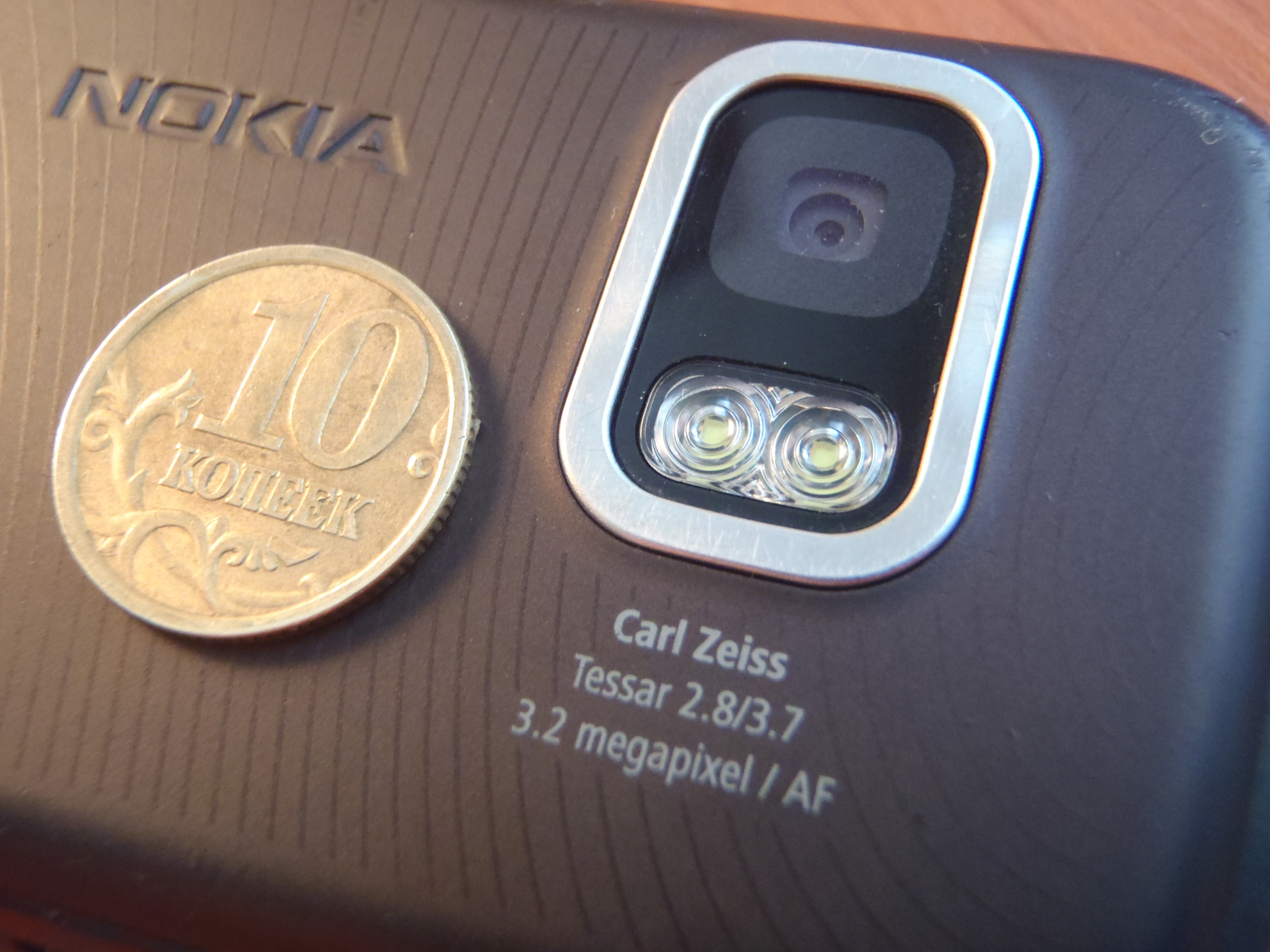 Carl Zeiss Tessar lens of Nokia 5800 cellphone